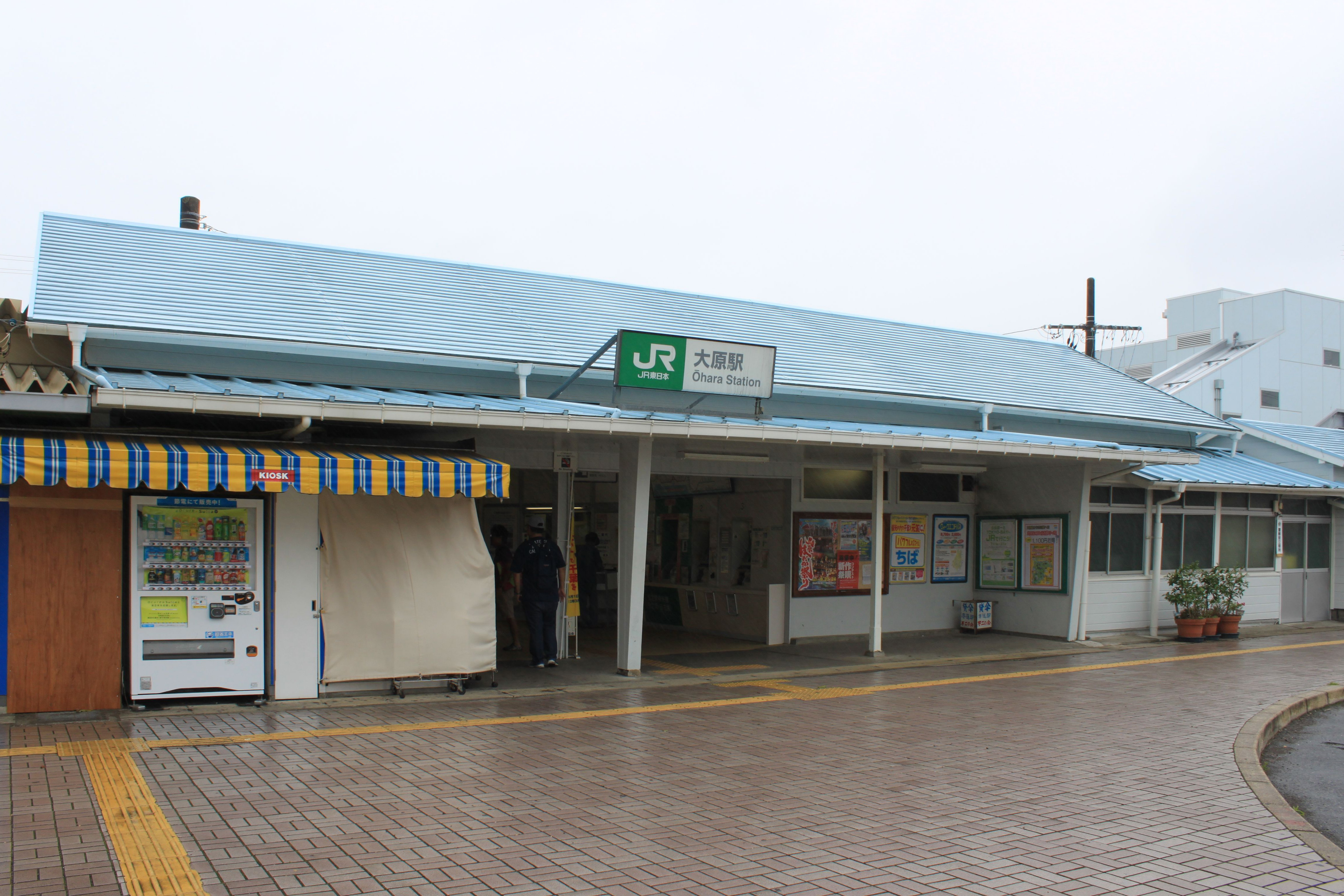 The JR East entrance to Ohara Station on the Sotobo Line in Chiba Prefecture, Japan